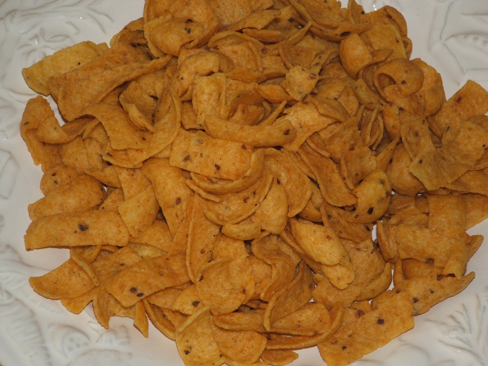 Corn chips (Fritos)